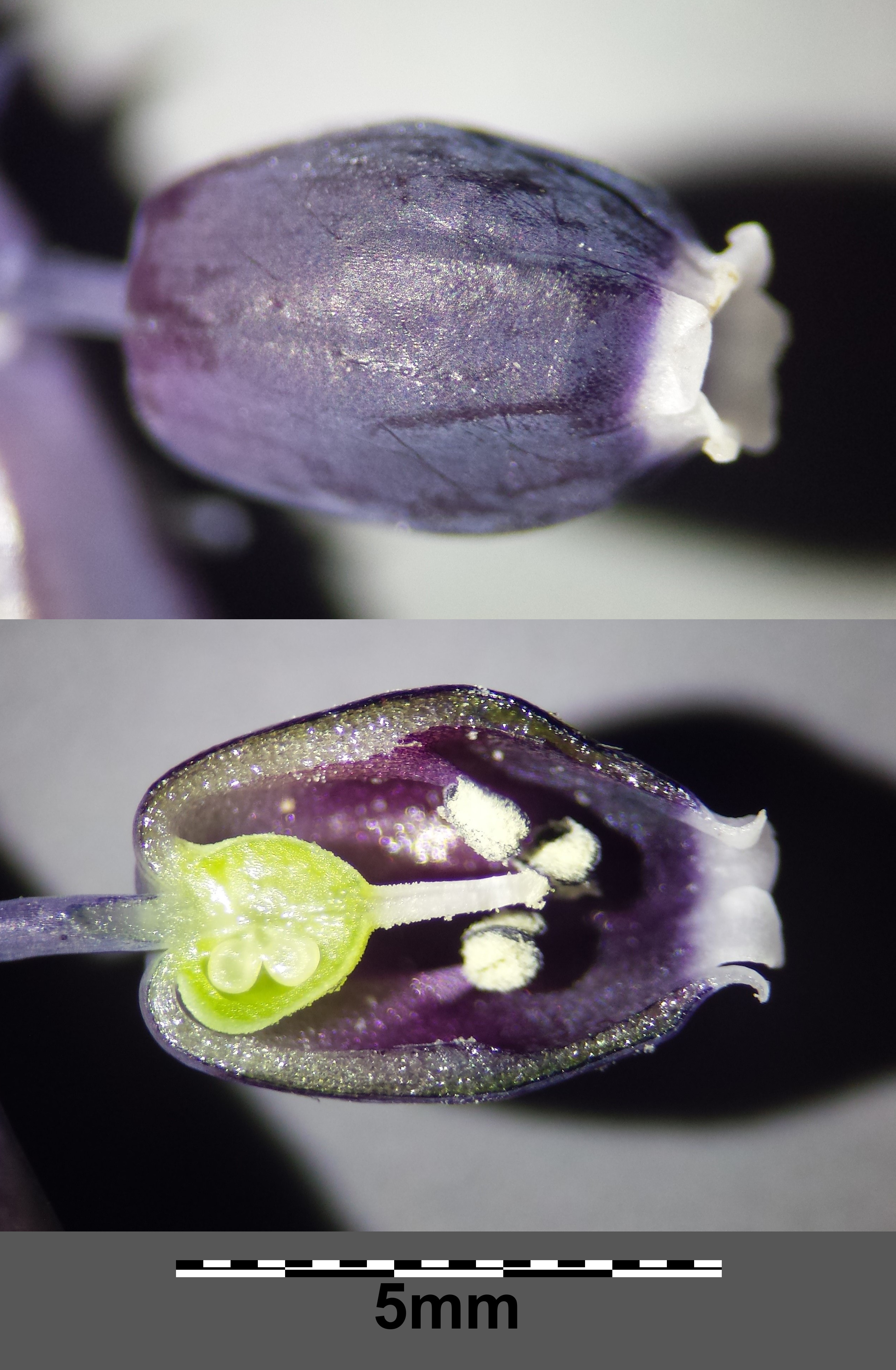 Fertile flower Taxonym: Muscari neglectum ss Fischer et al. EfÖLS 2008 ISBN 978-3-85474-187-9 Location: Neue Donau, Vienna-Floridsdorf - ca. 160 m a.s.l. Habitat: dry slope